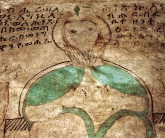 Contemporary painting of Yekuno Amlak, Genneta Maryam church (Lalibela).